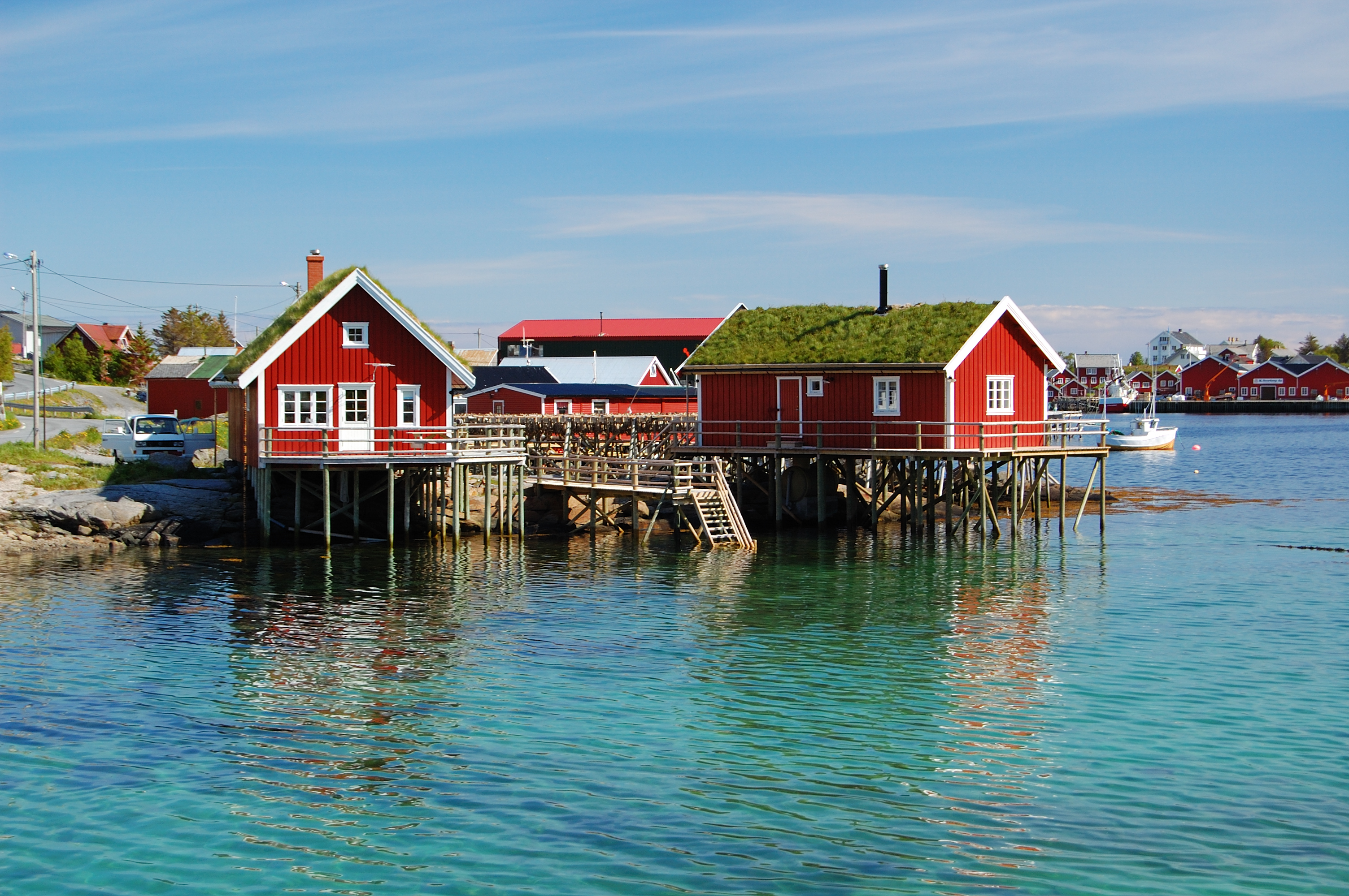 Rorbu (traditional wooden fishermen's houses) in Reine, Norway.